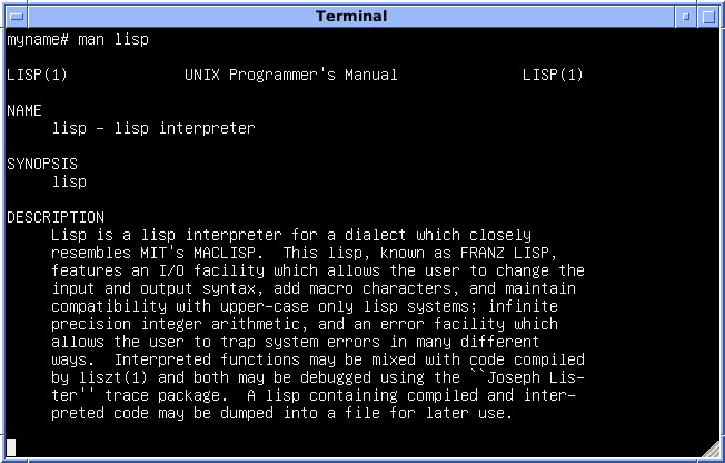 4.3 BSD from the University of Wisconsin, running in the SIMH VAX-11/780 simulator with 16MB memory. The system describes itself as "4.3 BSD UNIX" and "4.3+NFS", and it dates to around January 1987. Reading the manual page for the Lisp interpreter.